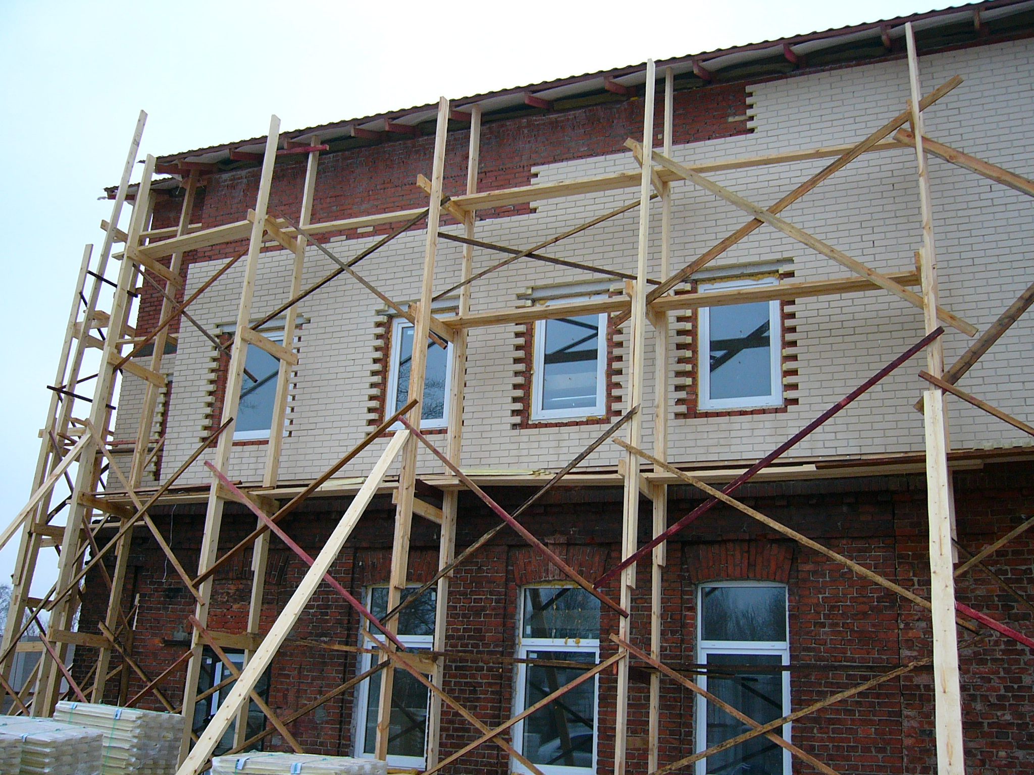 A business center. clinker panels, building under construction